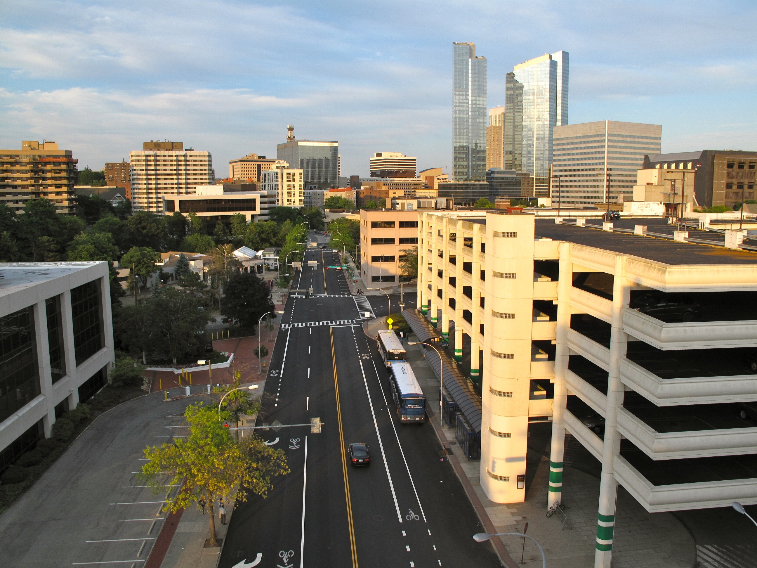 The City of White Plains, as seen from the West side.